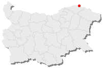 Map of Bulgaria, the red point is the position of Silistra.